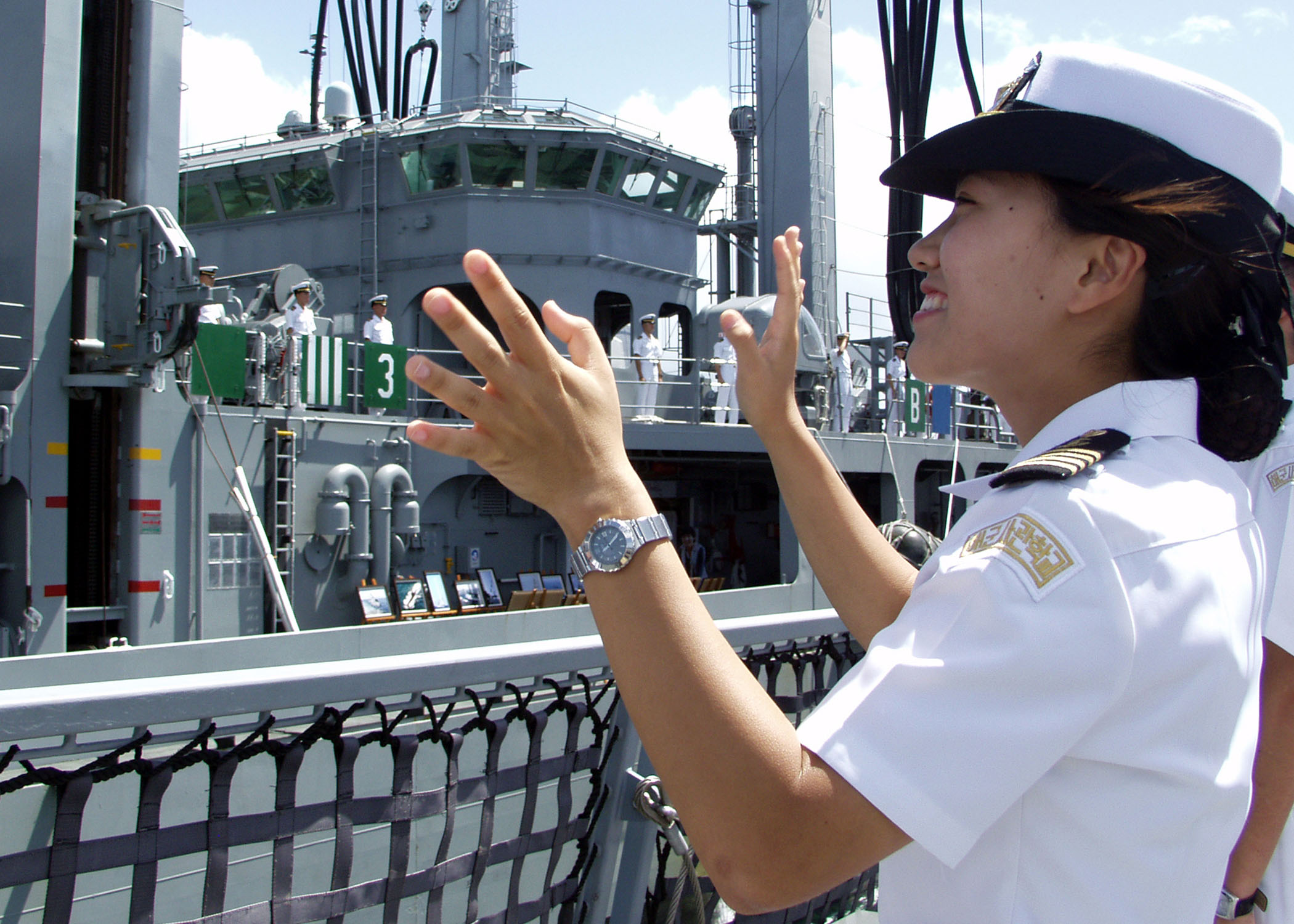 060921-N-0879R-001 Pear Harbor (Sept. 21, 2006) - A Korean midshipman aboard the destroyer Dae Jo Yeong (DDG 977) waves to fellow sailors aboard the logistics support ship Dae Cheong (AOE 58). The ships of the Republic of Korea’s Cruise Training Force 2006 arrived at Naval Station Pearl Harbor for a port visit. While in Hawaii, the Korean sailors plan to visit the National Memorial Cemetery of the Pacific and meet with members of the local Korean community. U.S. Navy photo by Chief Mass Communication Specialist David Rush (RELEASED)